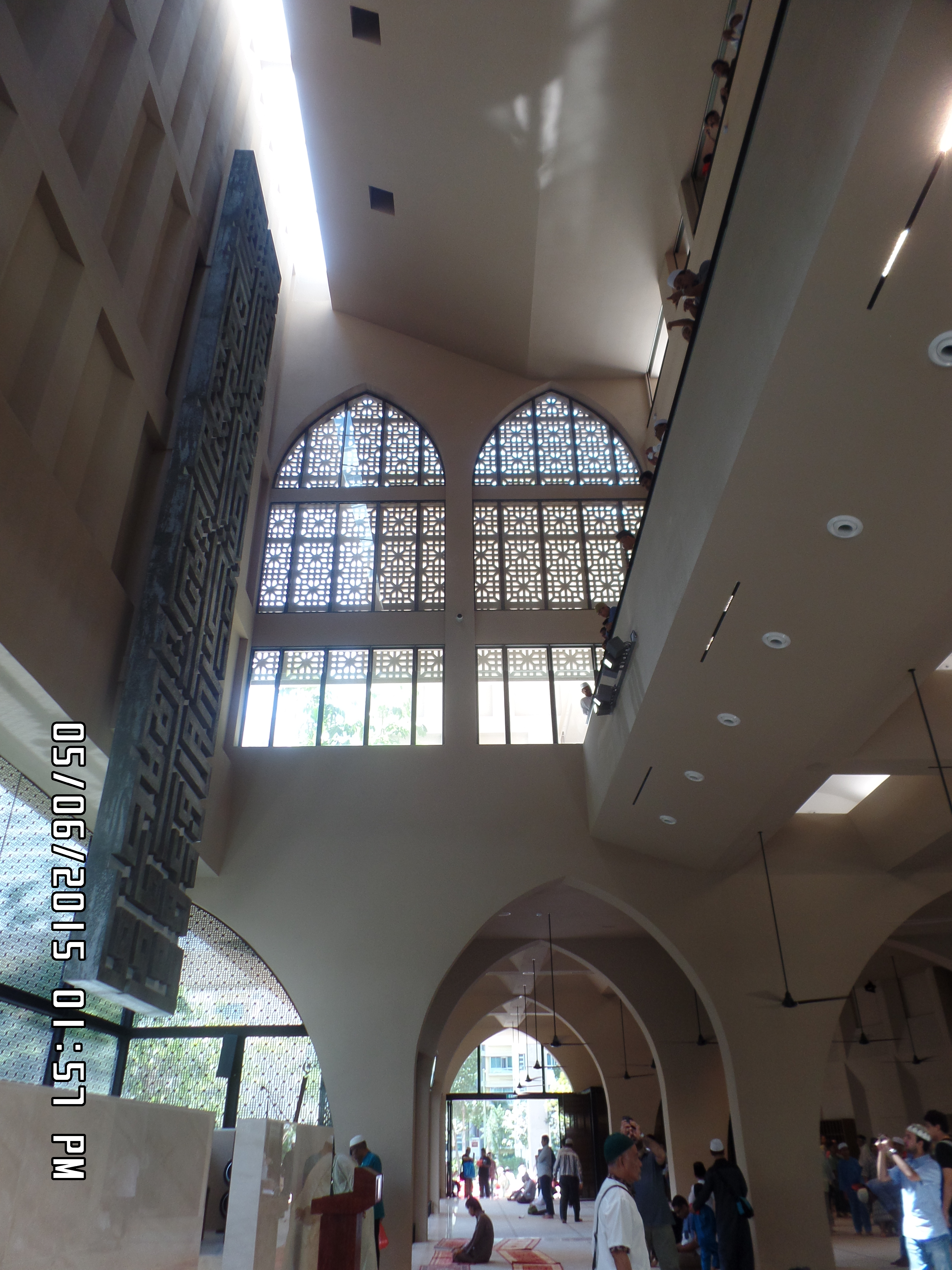 The high ceilings of Masjid Al Islah, Singapore. Taken after Friday prayers on the Grand Opening day.